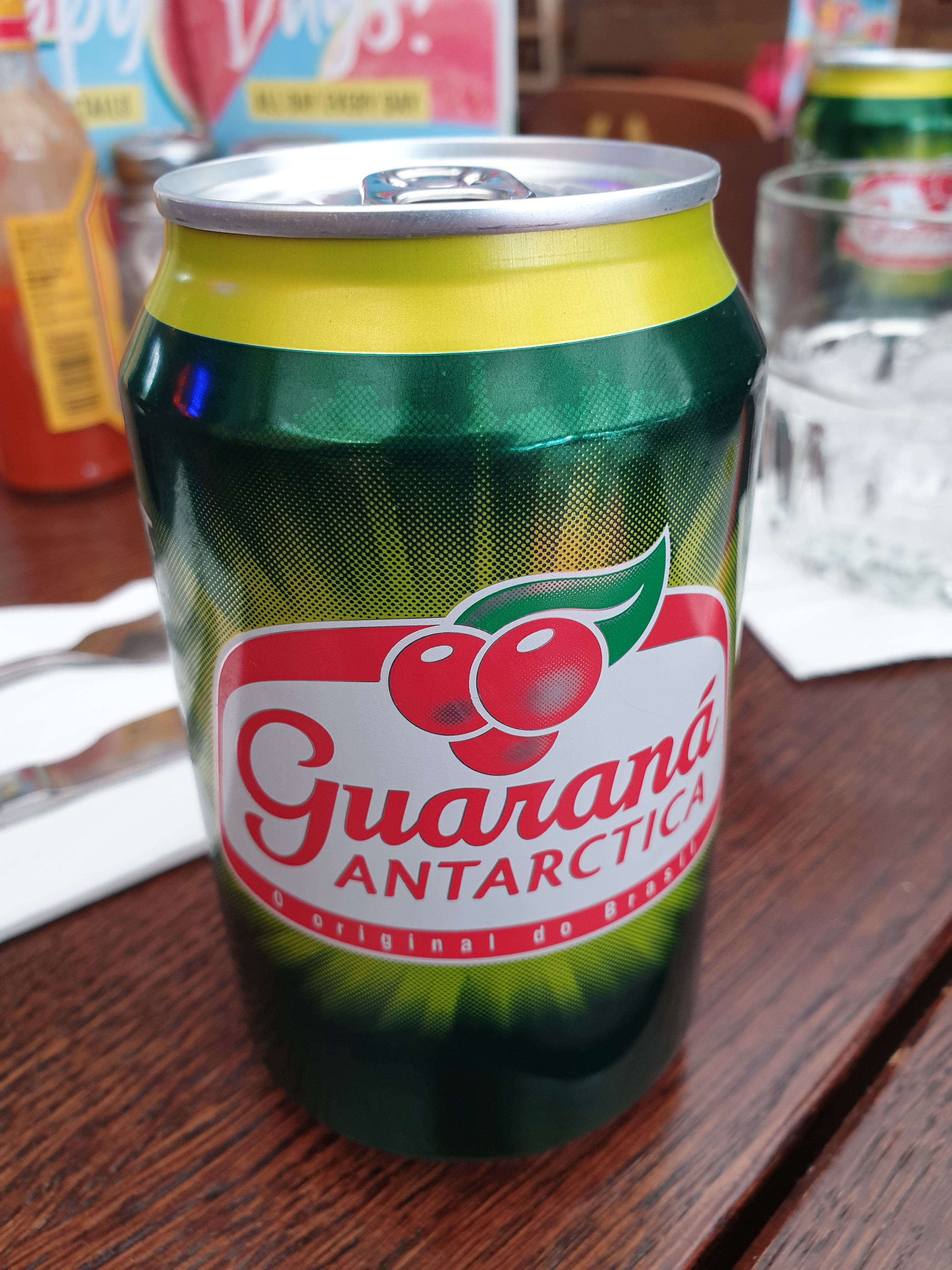 Guaraná Antarctica can